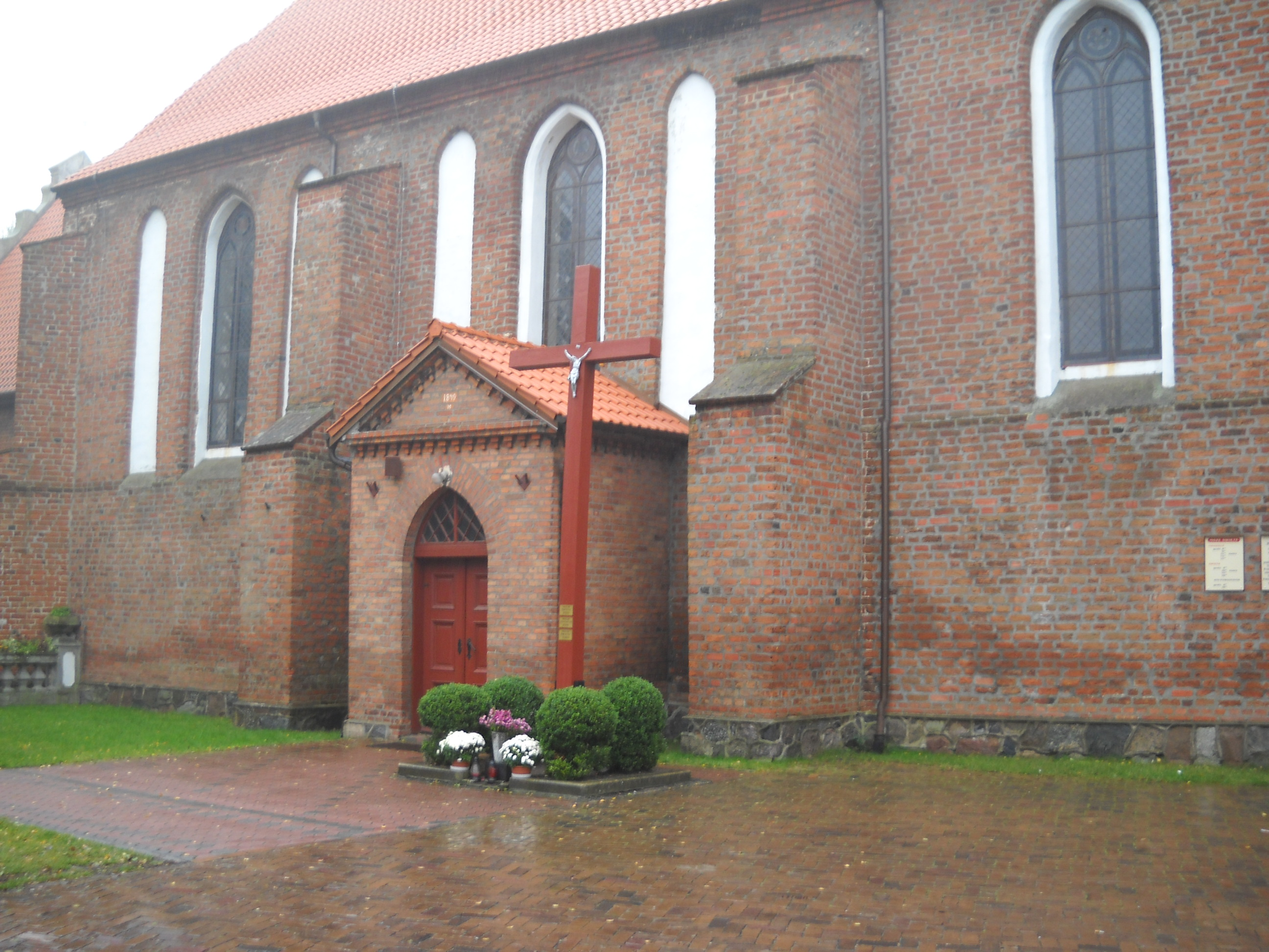 Łasin Church Square